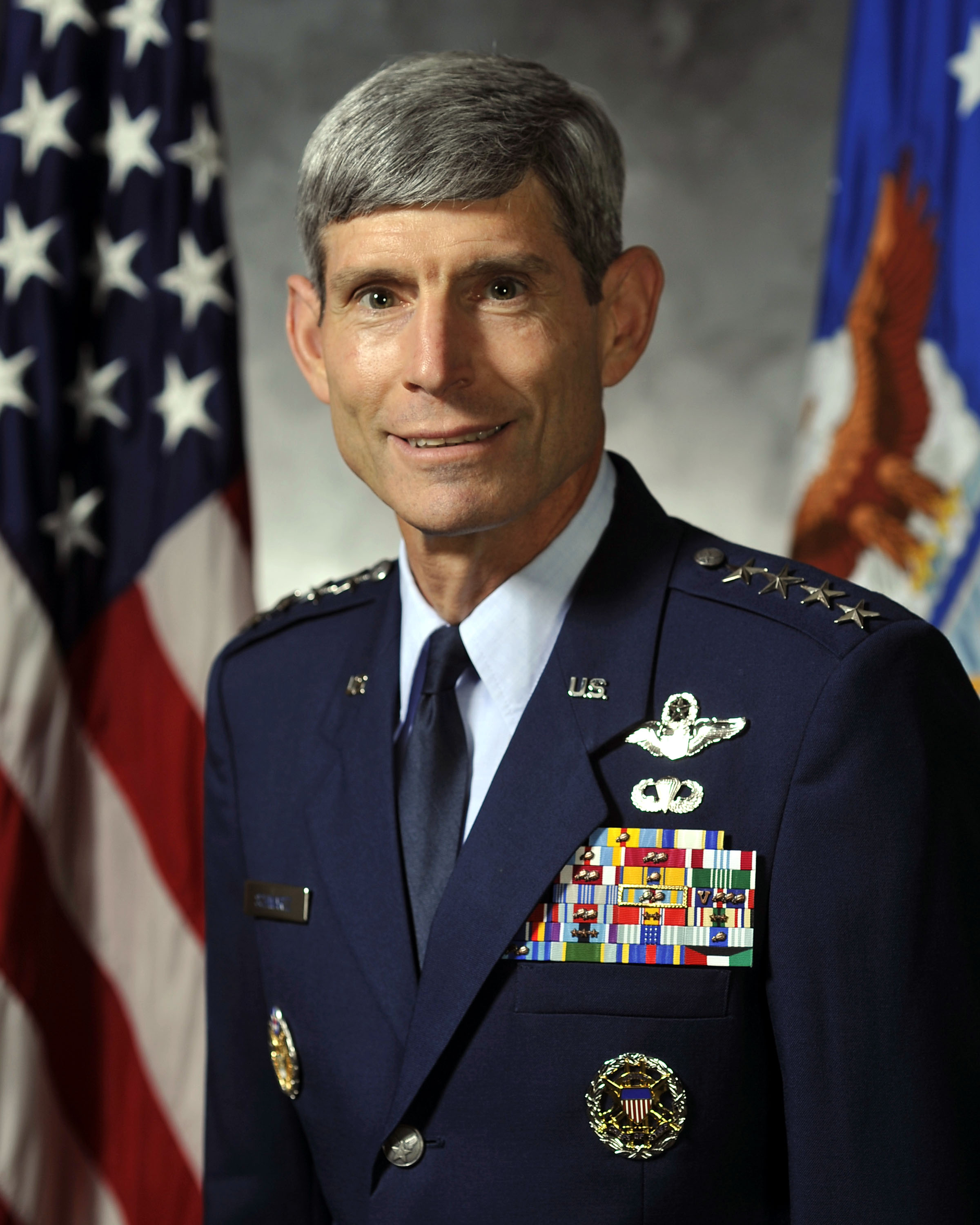 General Norton A. Schwartz, USAF, Chief of Staff of the U.S. Air Force